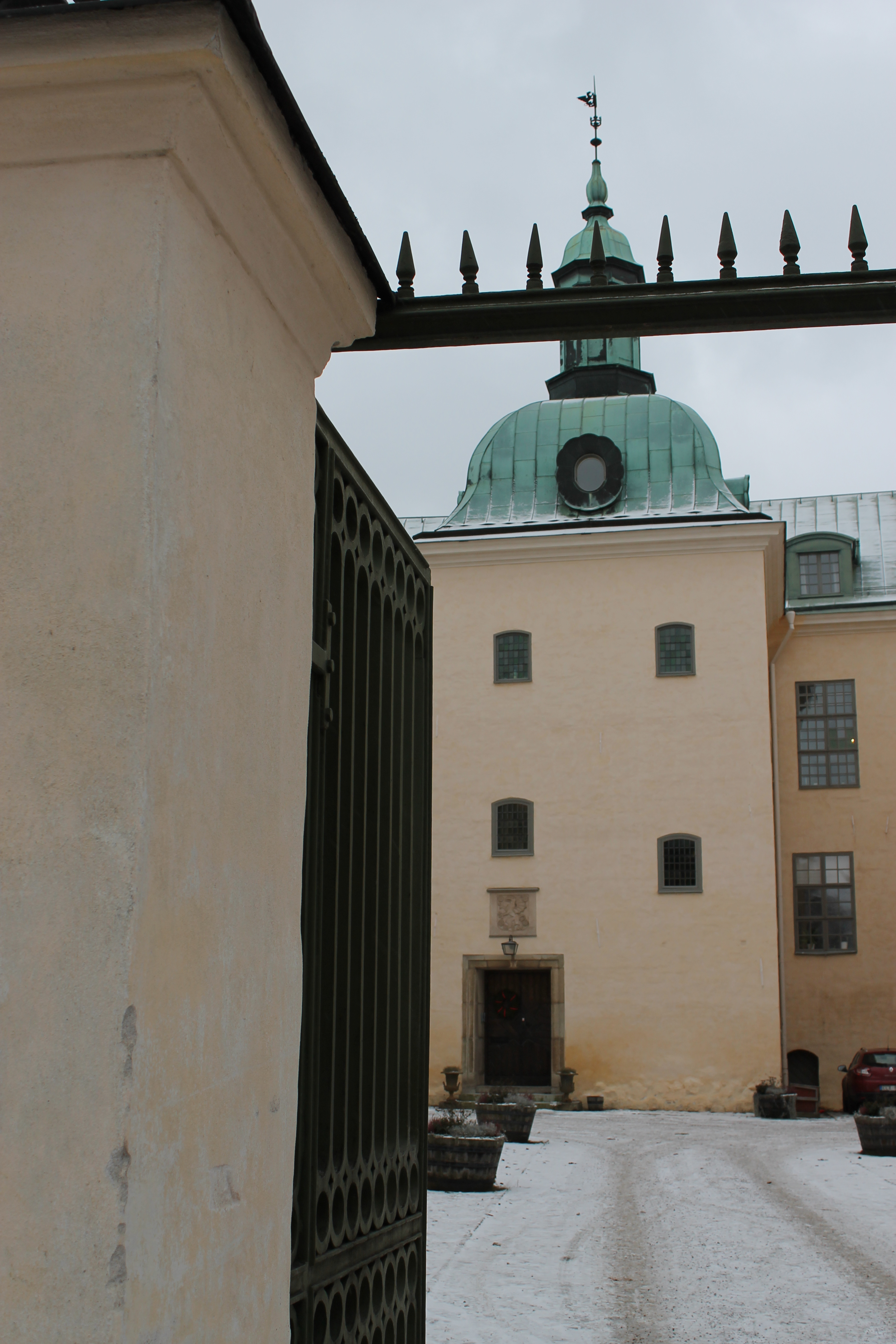 Linköping Castle in central Linköping, Sweden, in the winter.